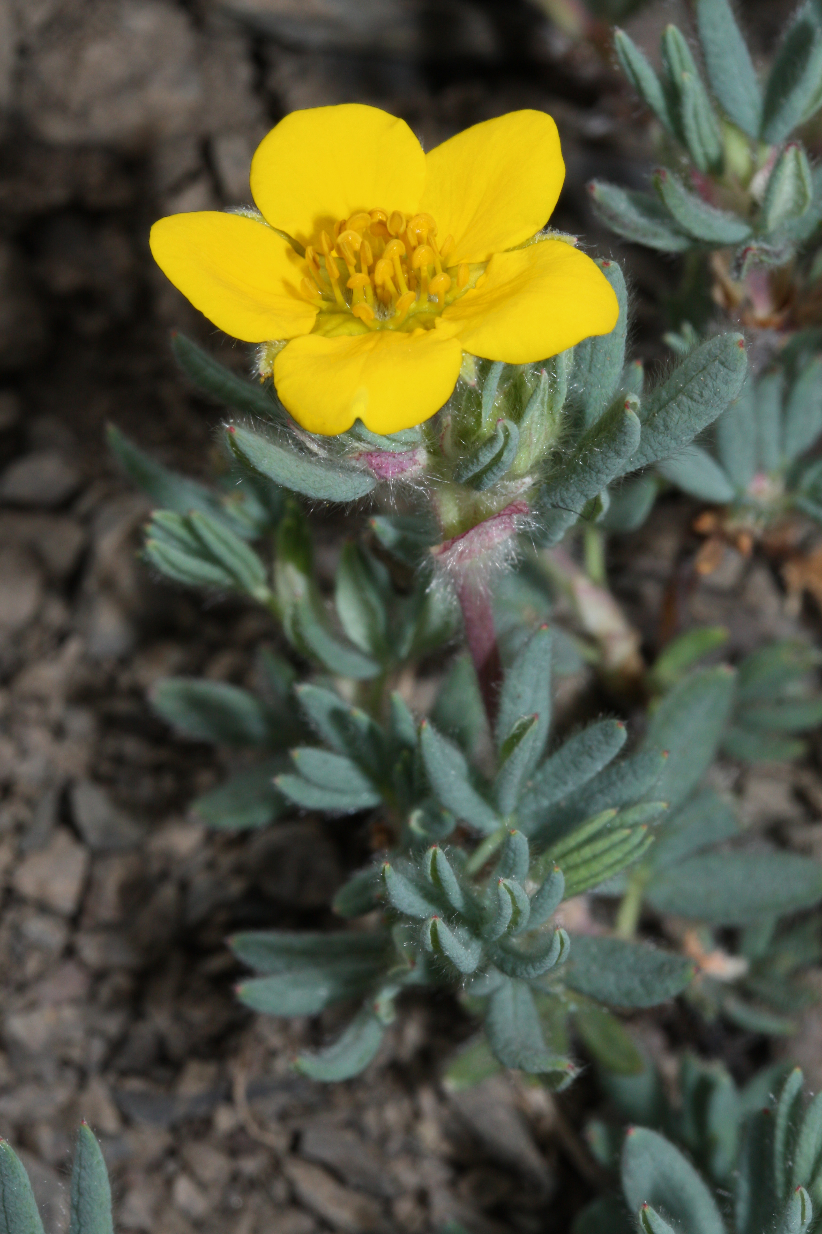 Shrubby Cinquefoil, Yellow Rose